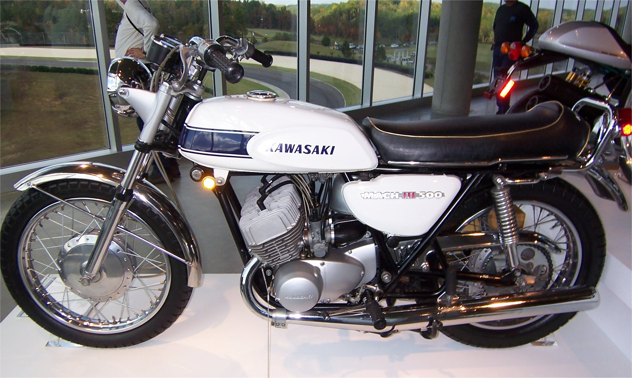 Barber Motorcycle Museum - Oct 22 2006 (642) 1969 Kawasaki 500 H1 MachIII More Description is here